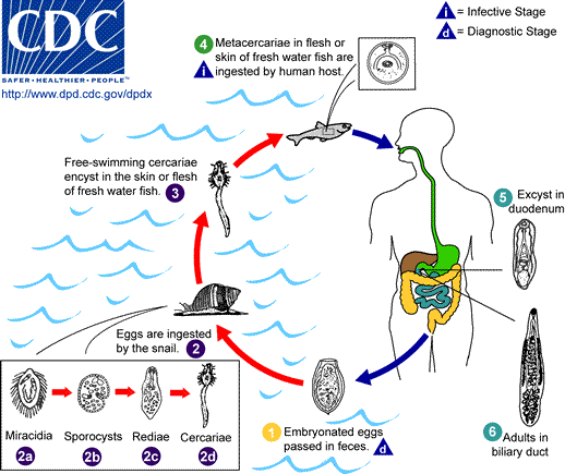 Opisthorchiasis [Opisthorchis felineus] [Opisthorchis viverrini] Causal Agent: Trematodes (flukes) Opisthorchis viverrini (Southeast Asian liver fluke) and O. felineus (cat liver fluke). Life cycle of Opistorchis spp. The adult flukes deposit fully developed eggs that are passed in the feces . After ingestion by a suitable snail (first intermediate host) , the eggs release miracidia , which undergo in the snail several developmental stages (sporocysts , rediae , cercariae ). Cercariae are released from the snail and penetrate freshwater fish (second intermediate host), encysting as metacercariae in the muscles or under the scales . The mammalian definitive host (cats, dogs, and various fish-eating mammals including humans) become infected by ingesting undercooked fish containing metacercariae. After ingestion, the metacercariae excyst in the duodenum and ascend through the ampulla of Vater into the biliary ducts, where they attach and develop into adults, which lay eggs after 3 to 4 weeks . The adult flukes (O. viverrini: 5 mm to 10 mm by 1 mm to 2 mm; O. felineus: 7 mm to 12 mm by 2 mm to 3 mm) reside in the biliary and pancreatic ducts of the mammalian host, where they attach to the mucosa. Geographic Distribution: O. viverrini is found mainly in northeast Thailand, Laos, and Kampuchea. O. felineus is found mainly in Europe and Asia, including the former Soviet Union.